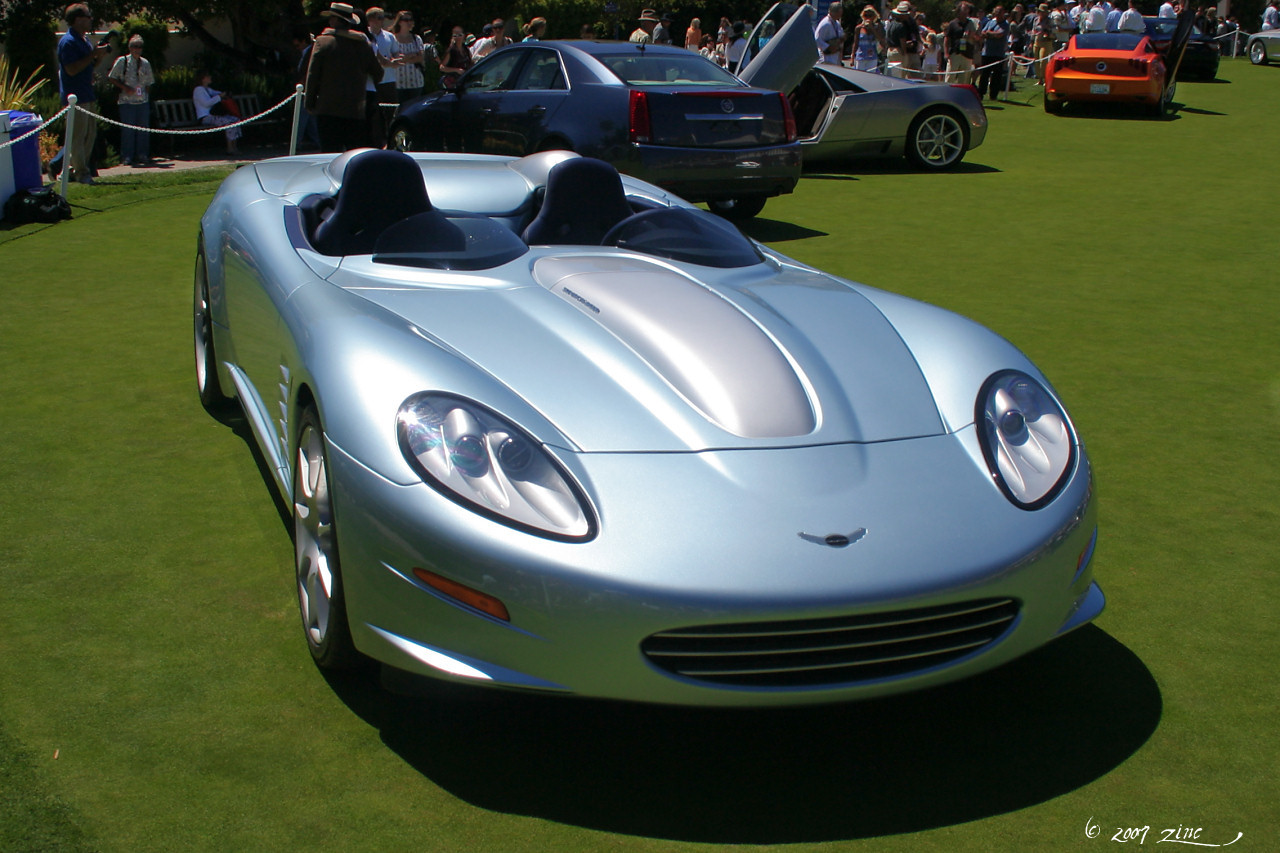 Pebble Beach Concours dElegance 2007